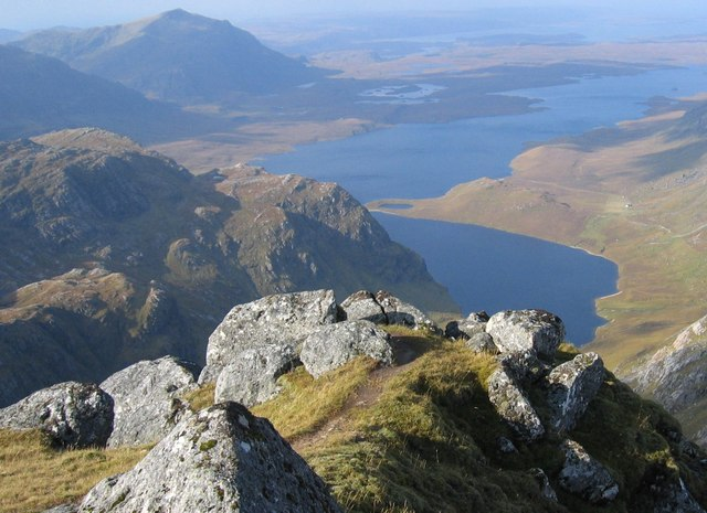 Fisherfield Looking NW from A'Mhaighdean over Dubh Loch and Fionn Loch